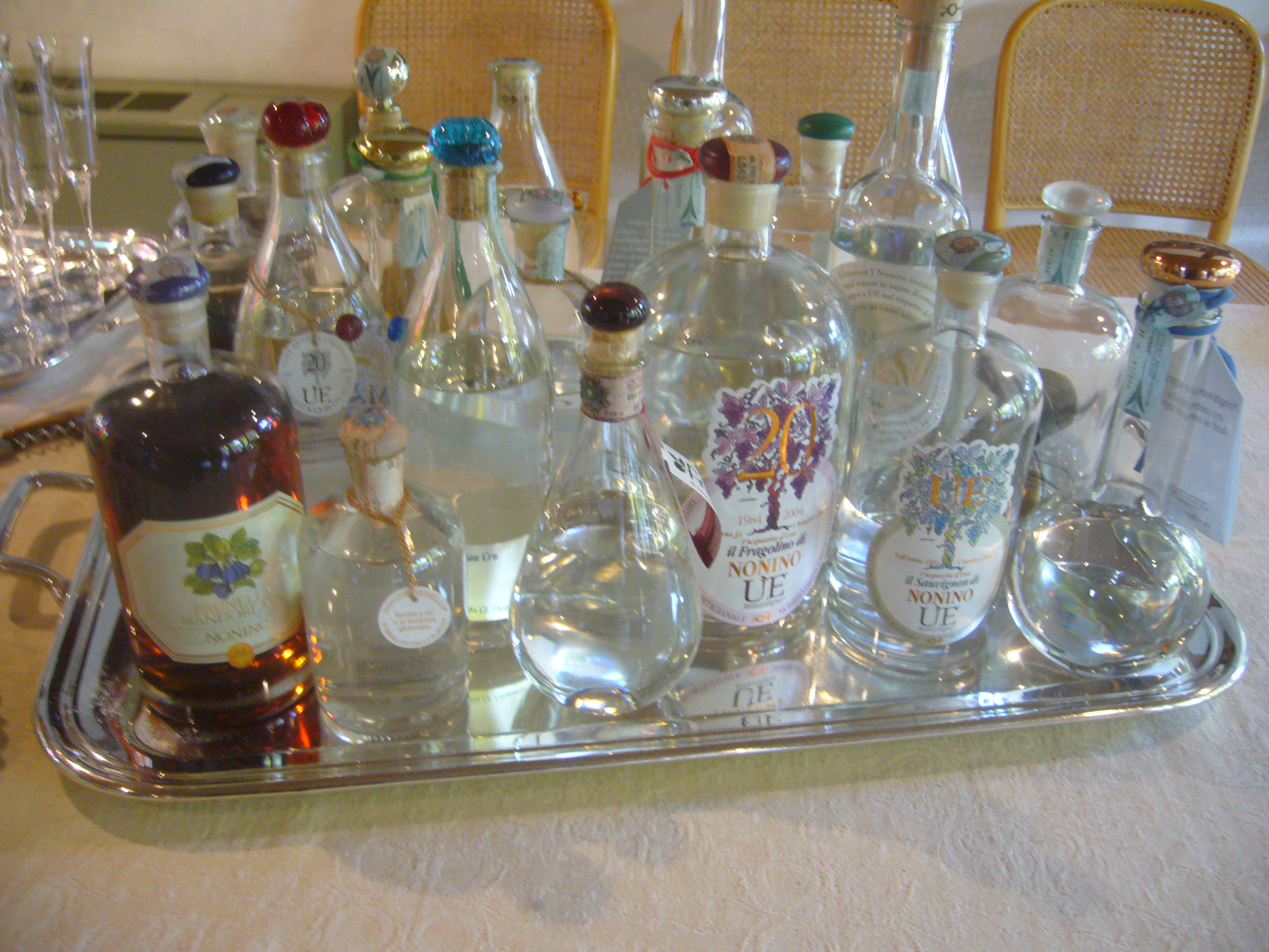 Different Grappa's